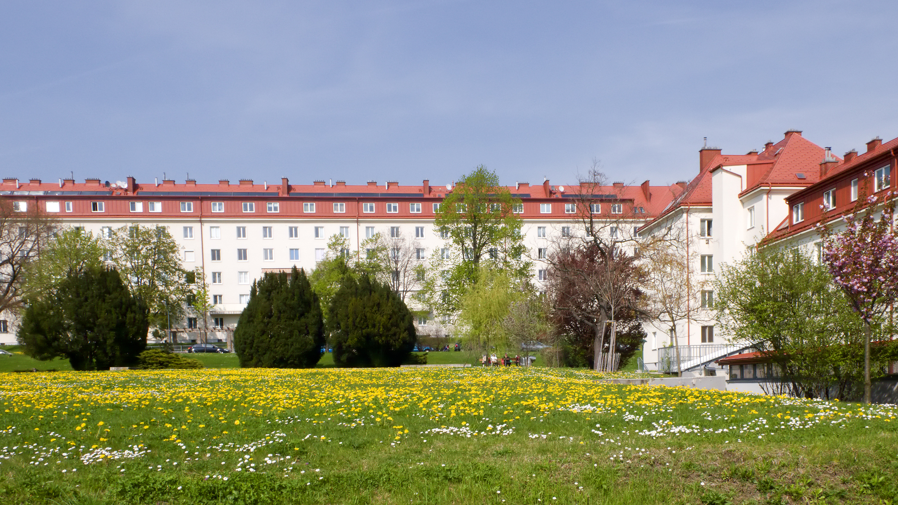 Residential building Hugo-Breitner-Hof in Vienna Penzing